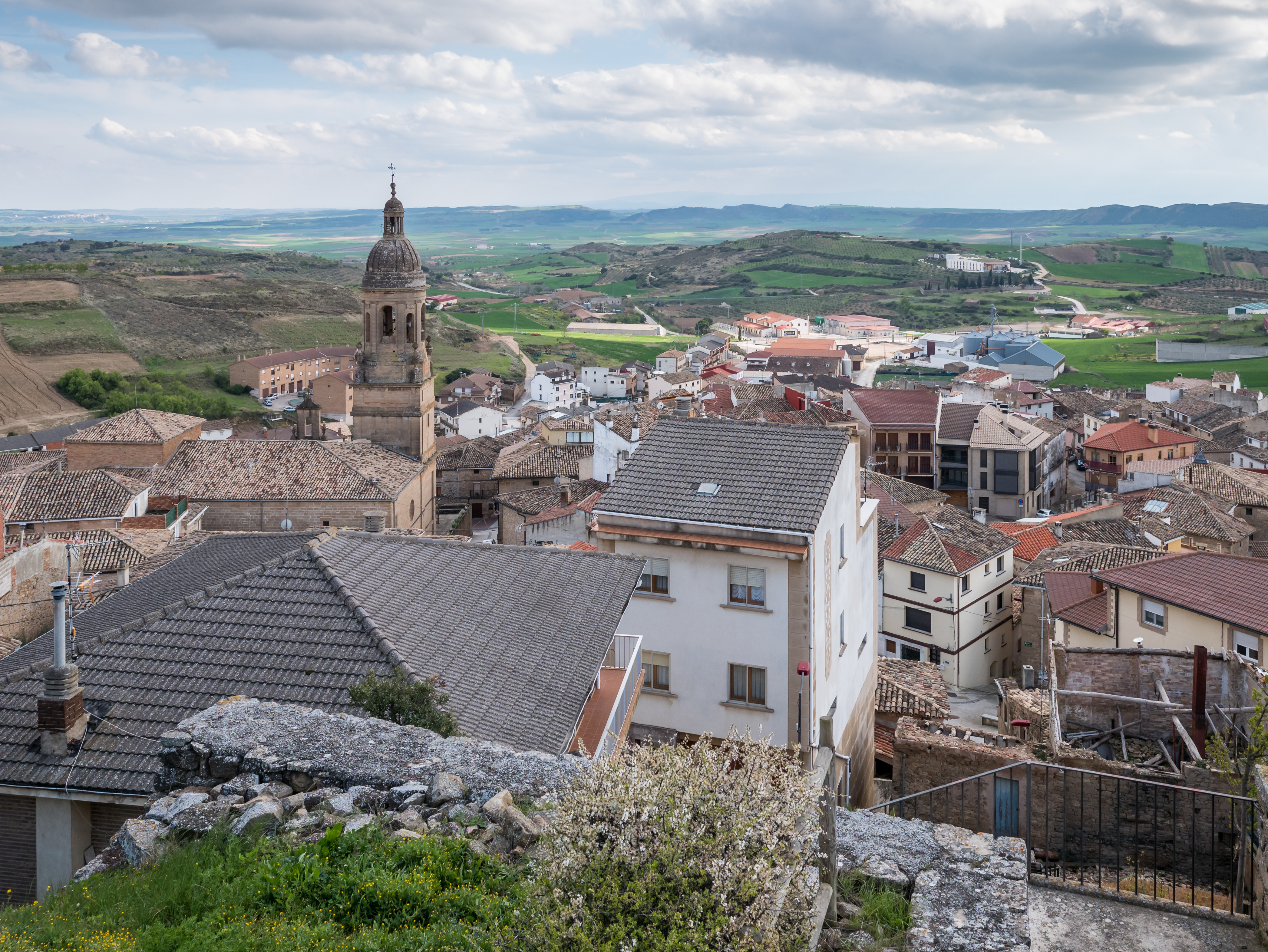 View of Arróniz, Navarre, Spain